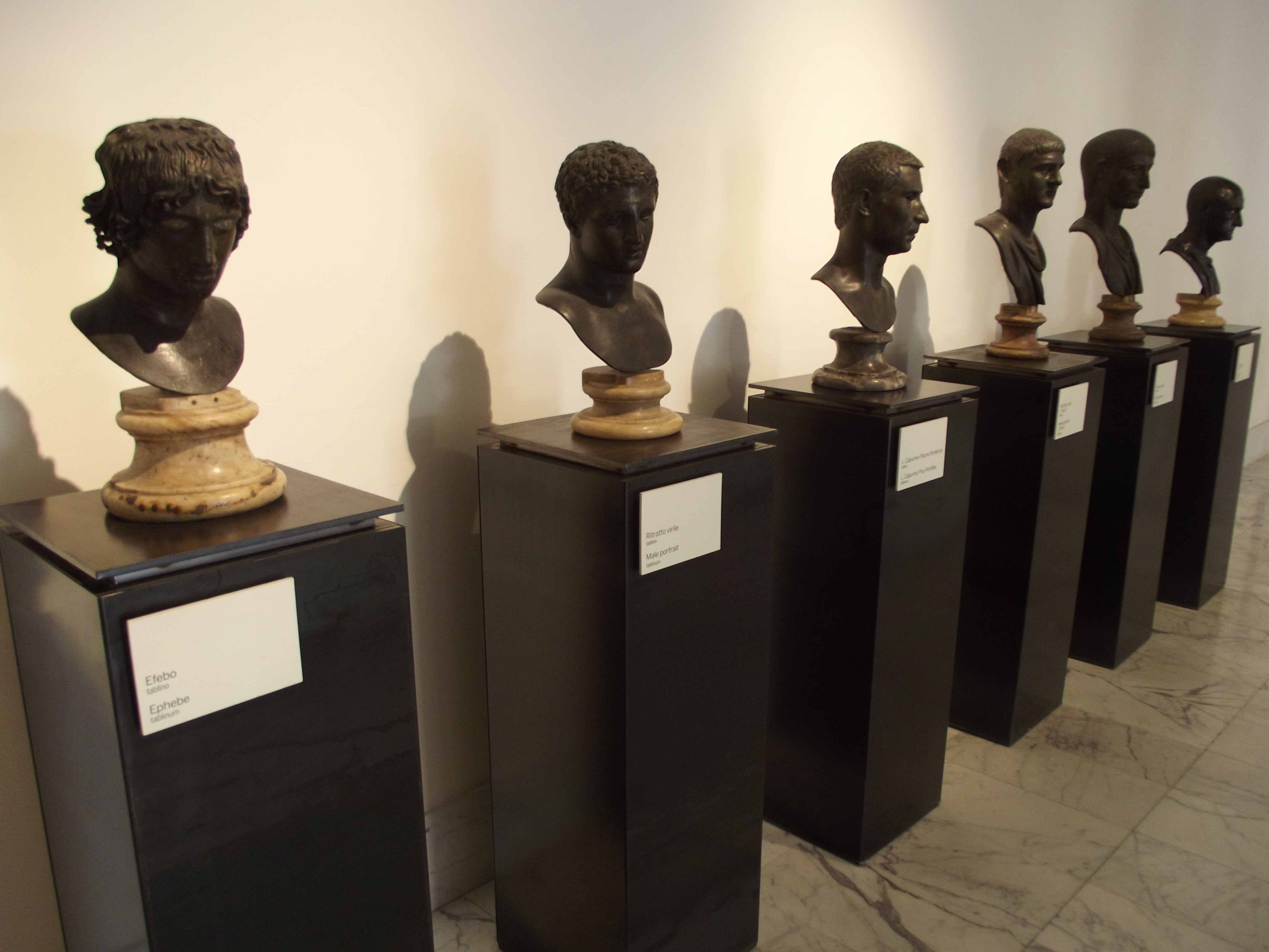 Museo Archeologico Nazionale di Napoli, Ancient Roman bronze busts from the Villa of the Papyri (Herculaneum)